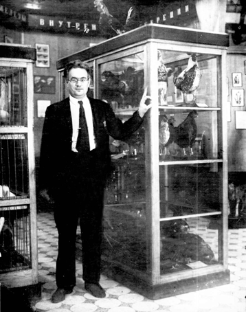 Zavadovski - founder of Biological Museum